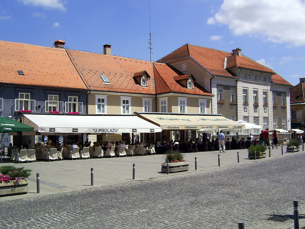 As in anywhere else in Croatia, also here the coffeehouse culture is amazing and in the city centre, you can find many coffee houses and bars.